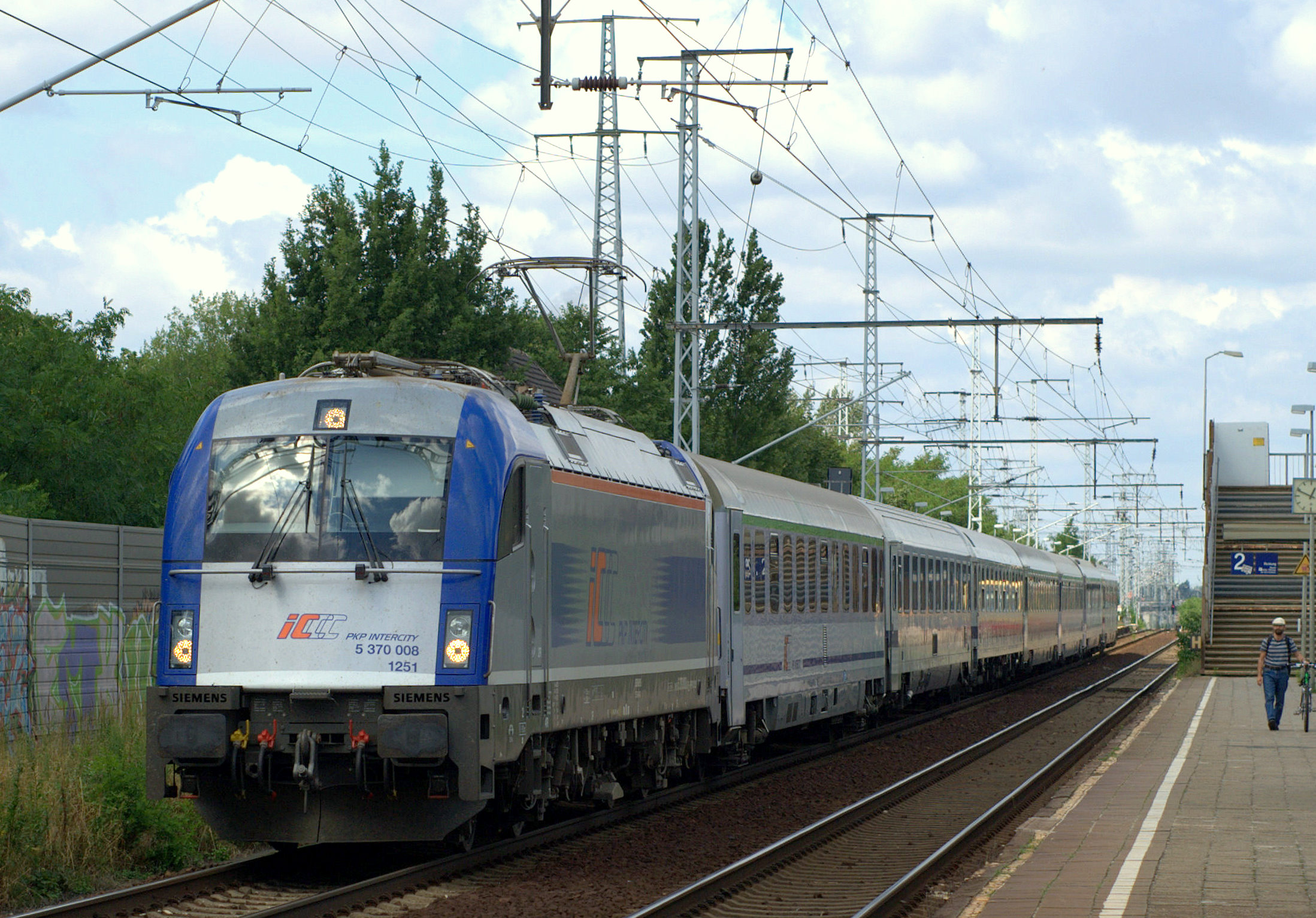 A PKP Intercity EU-44 'Husarz' hauling a 'Berlin-Warsaw Express' train